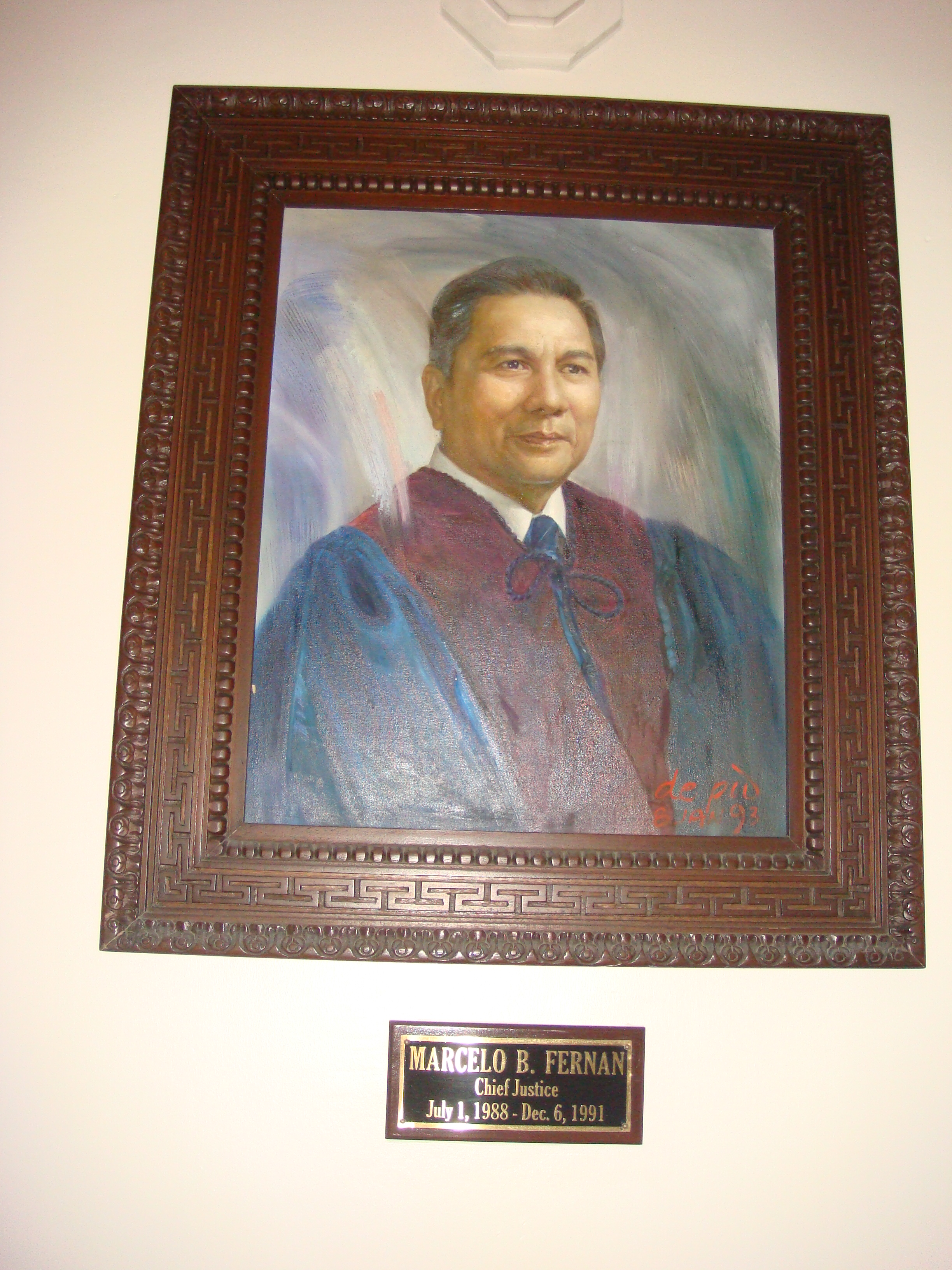 Supreme Court of the Philippines